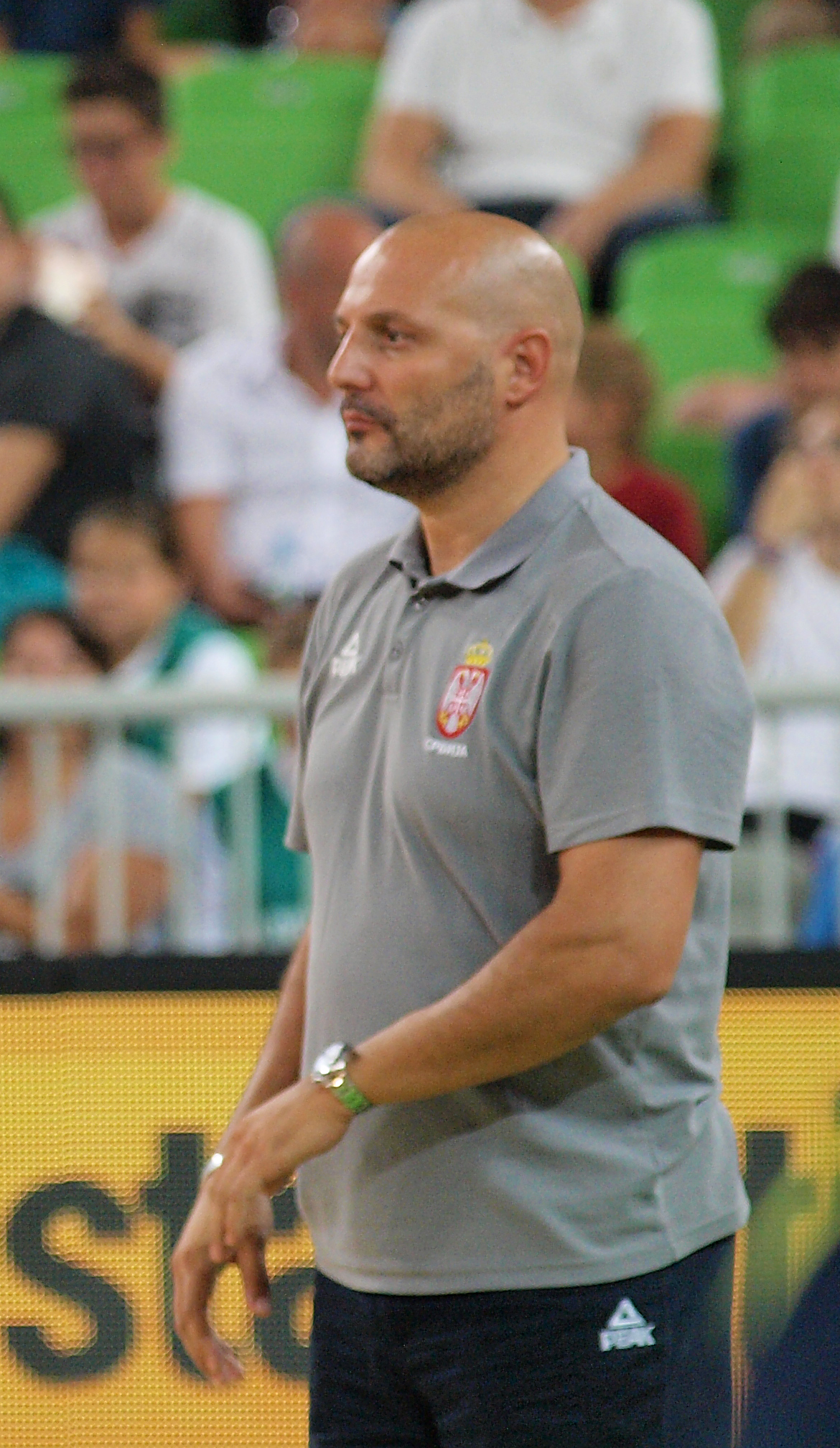 Aleksandar Đoirđević coaching Serbian basketball team. Ljubljana august 2015.